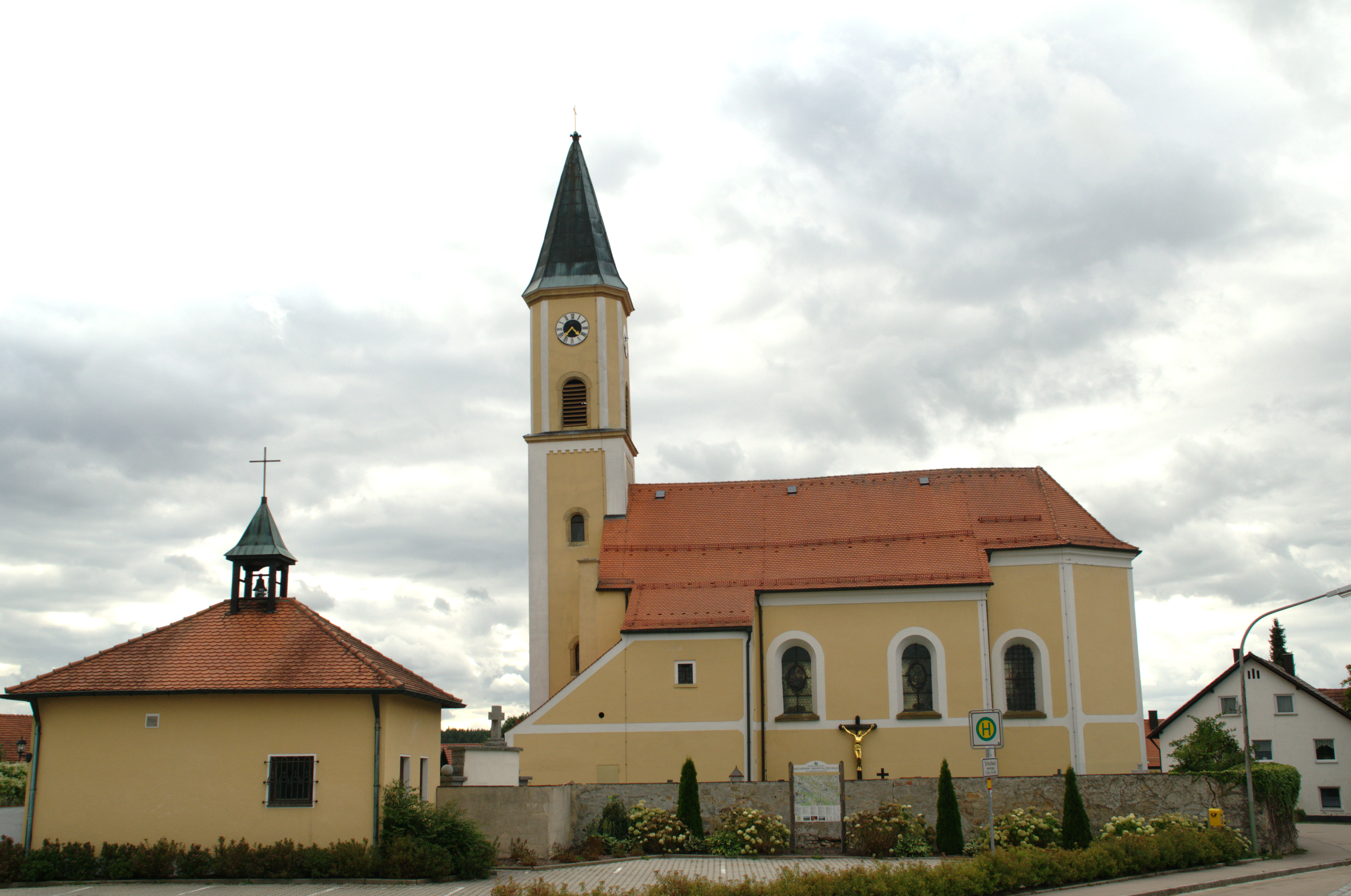 This is a photograph of an architectural monument.